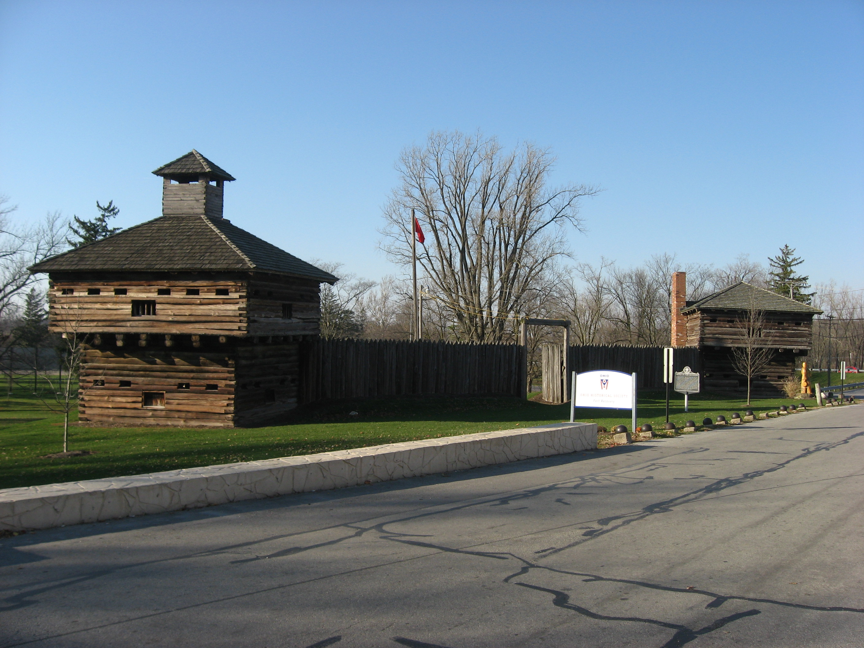 Walls at a reproduction of the original Fort Recovery, located along the western side of Fort Site Street in Fort Recovery, Ohio, United States. The fort site is listed on the National Register of Historic Places.